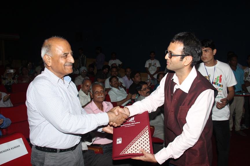 PCCF Madhya Pradesh Shri Narendra Kumar being welcomed by TIFF Director